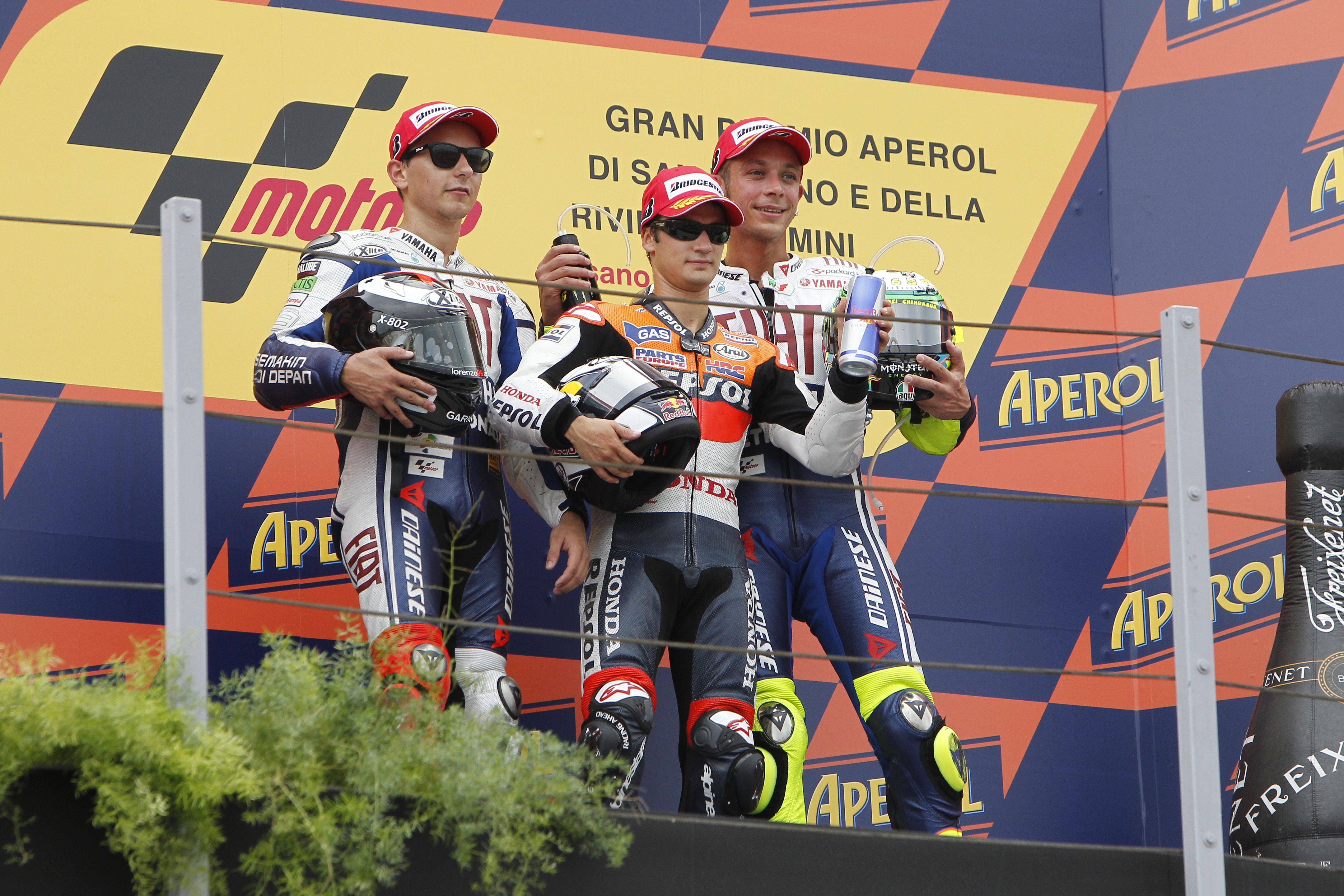 Jorge Lorenzo, Dani Pedrosa and Valentino Rossi, posing for a photo on the podium after finishing in second, first and third place at the 2010 San Marino and Rimini's Coast Grand Prix.